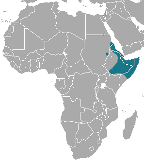 Abyssinian Hare (Lepus habessinicus) range, along with national borders